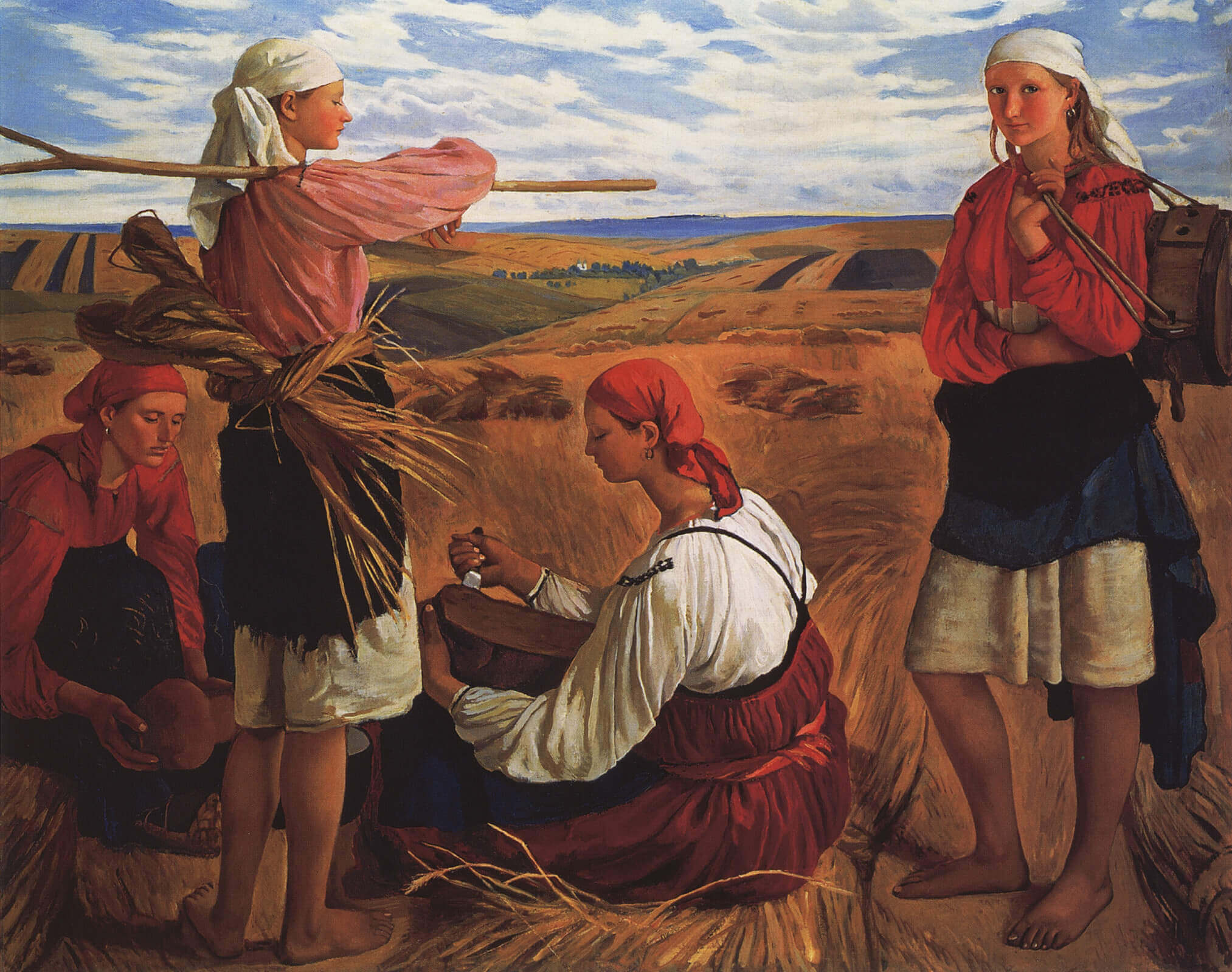 Harvest